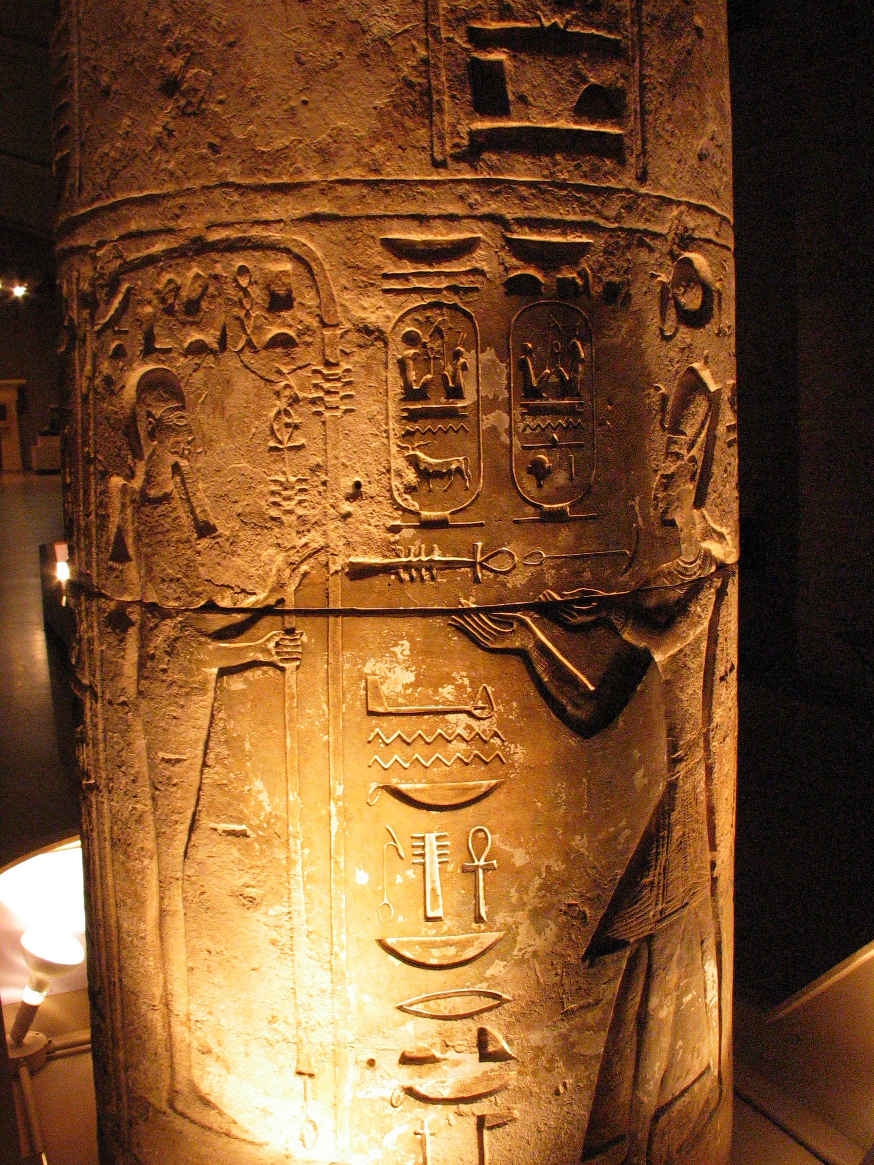 Merenptah makes an offering to the god Ptah on this stone column. From the Museum of Archaeology and Anthropology at the University of Pennsylvania, Philadelphia.